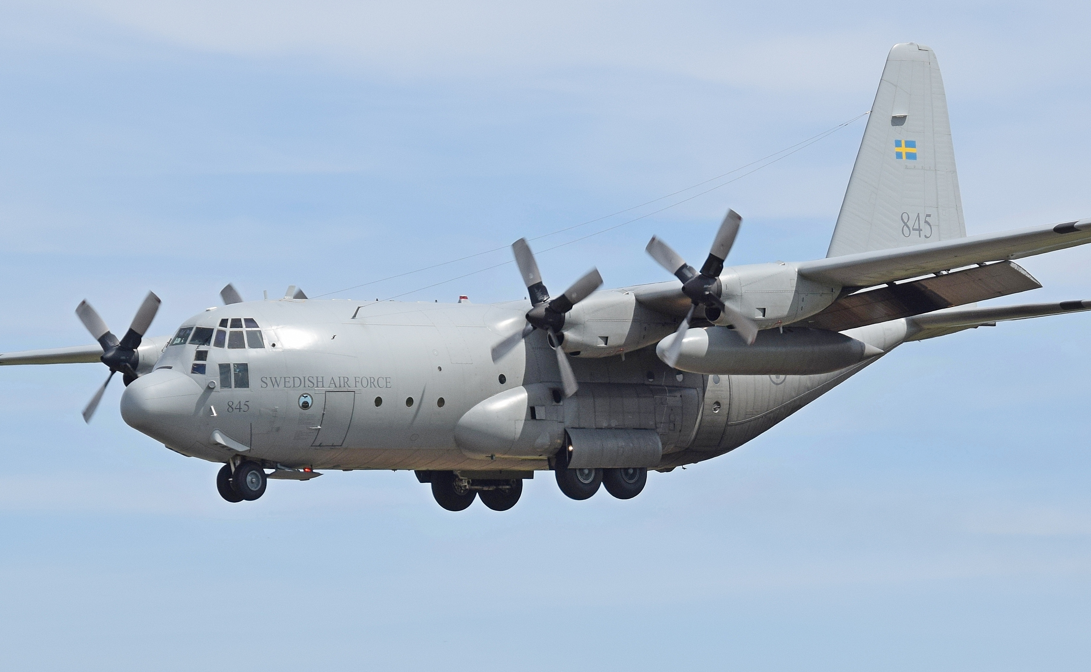 Lockheed Hercules C-130H of the Swedish Air Force (tail code 845) at the 2017 Royal International Air Tattoo, RAF Fairford, England.